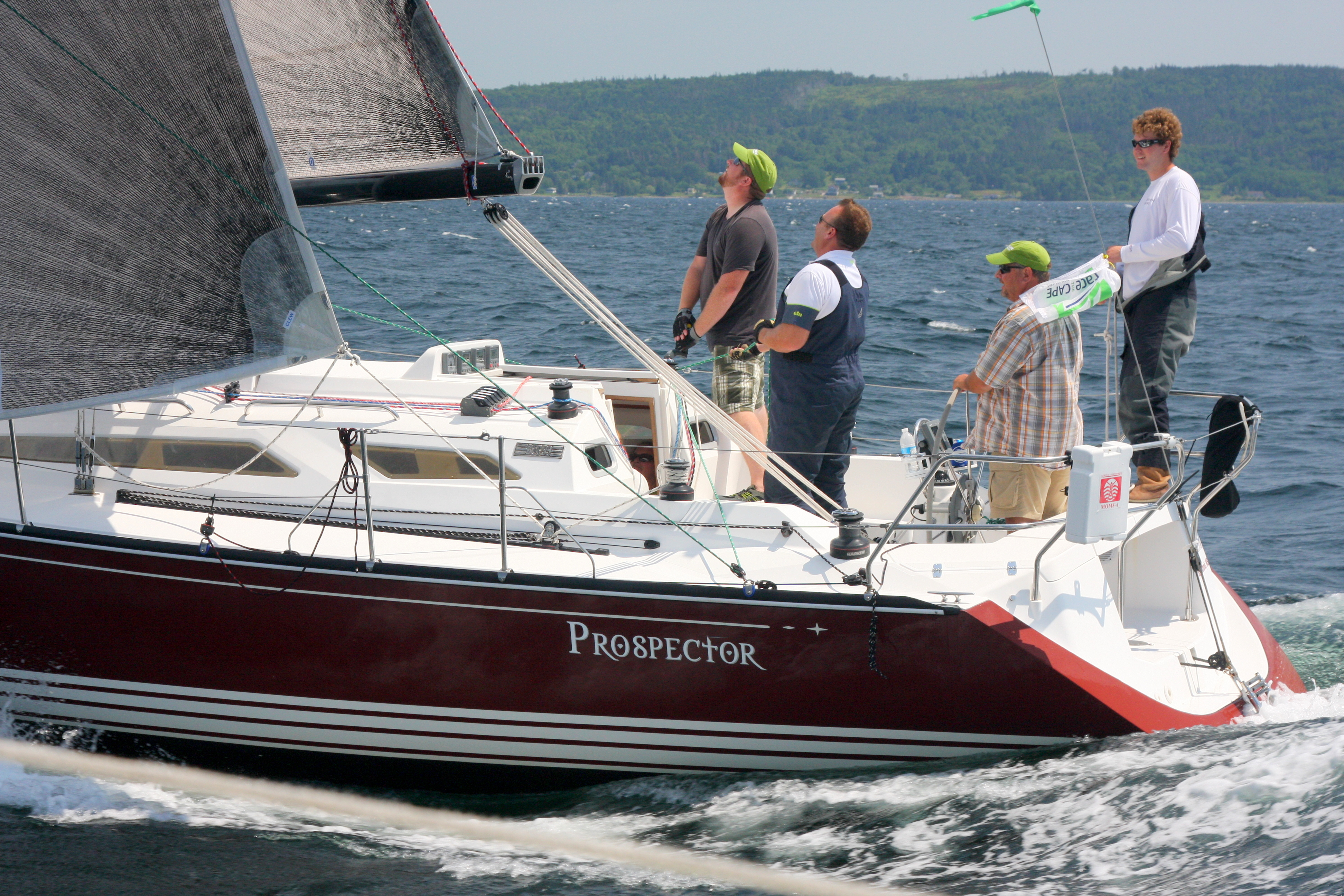 The C&C 99 "Prospector" competing in the Barra Strait Cup, one leg of Race the Cape 2014 in the Bras d'Or Lake, Cape Breton Island, Nova Scotia, Canada. The C&C 99 is an American sailboat, that was designed by Tim Jackett and entered production in 2002. The boat was built by C&C Yachts in the United States, but it is now out of production.